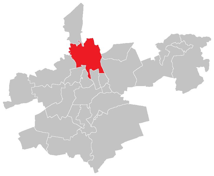 Location map of Olomouc district Černovír